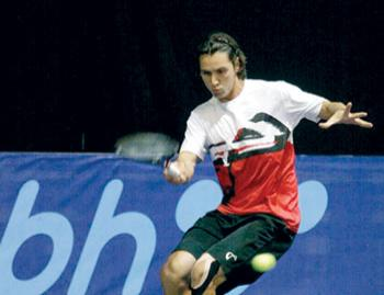 Delic Challenger